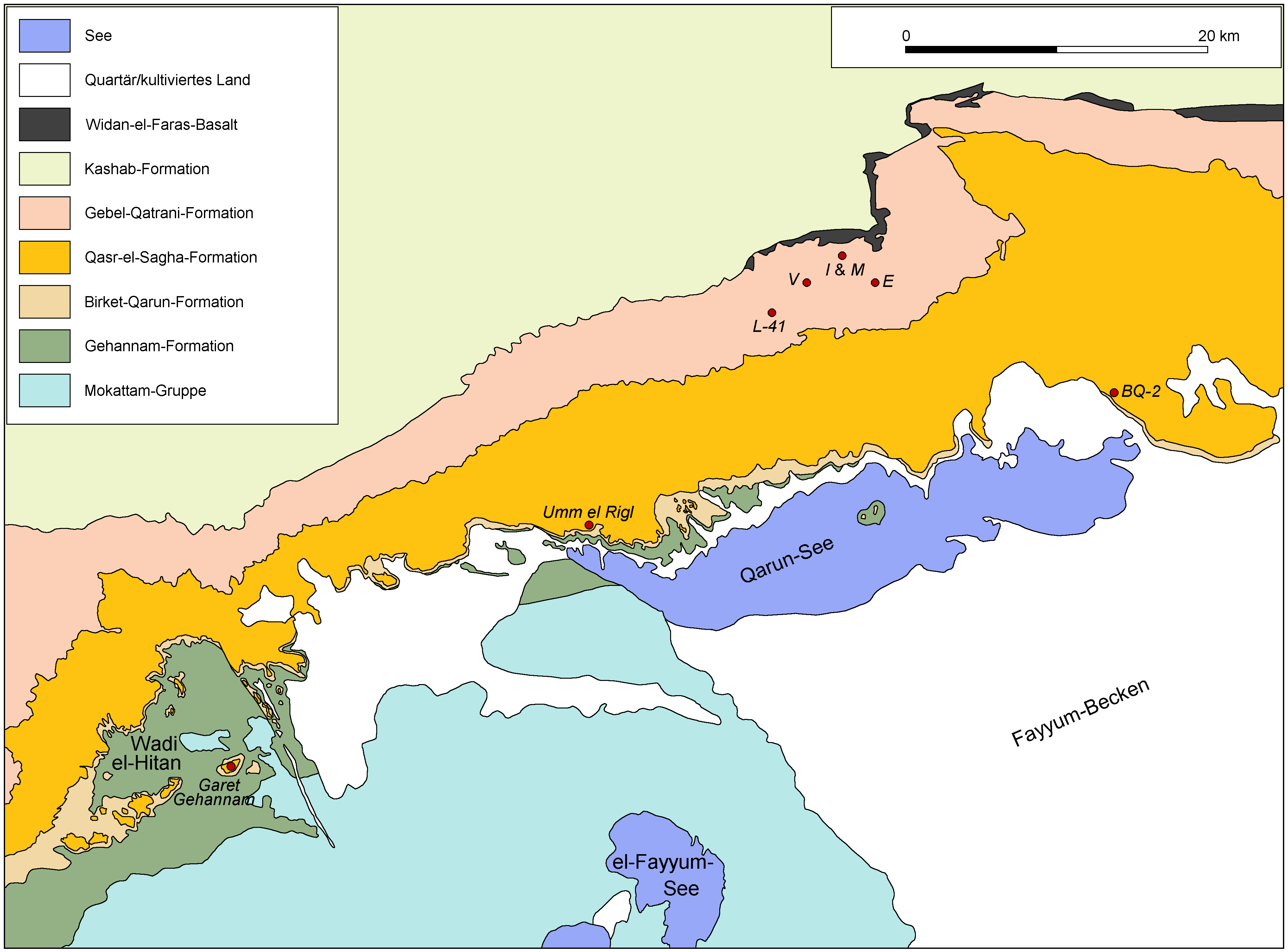 Geological map of the Fayum area redrawn after Chris King, Charlie Underwood und Etienne Steurbaut: Eocene stratigraphy of the Wadi Al-Hitan World Heritage Site and adjacent areas (Fayum, Egypt). Stratigraphy 11 (3–4), 2014, pp. 185–234 (fig 1)